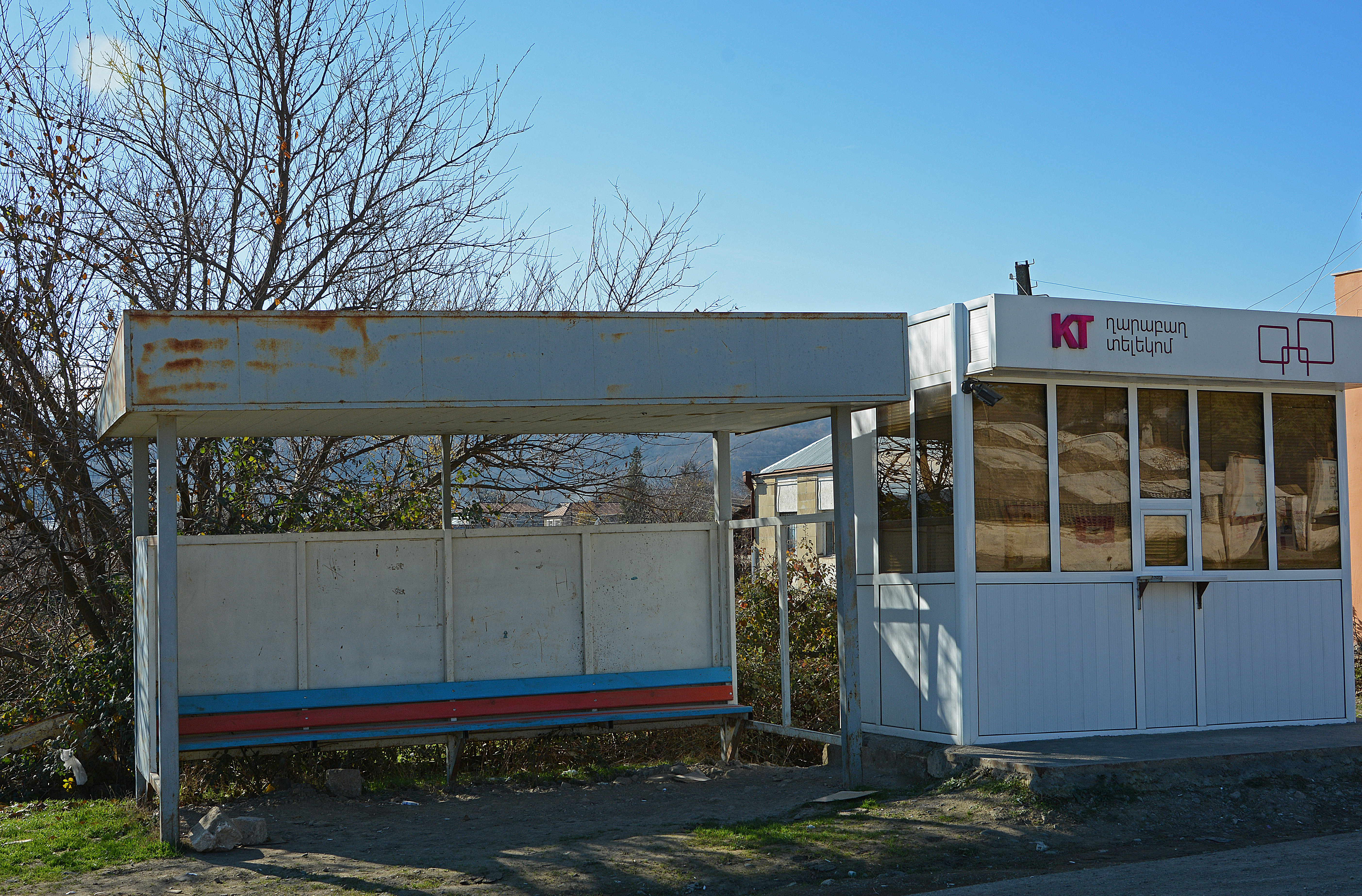 Stop station in Aygestan village